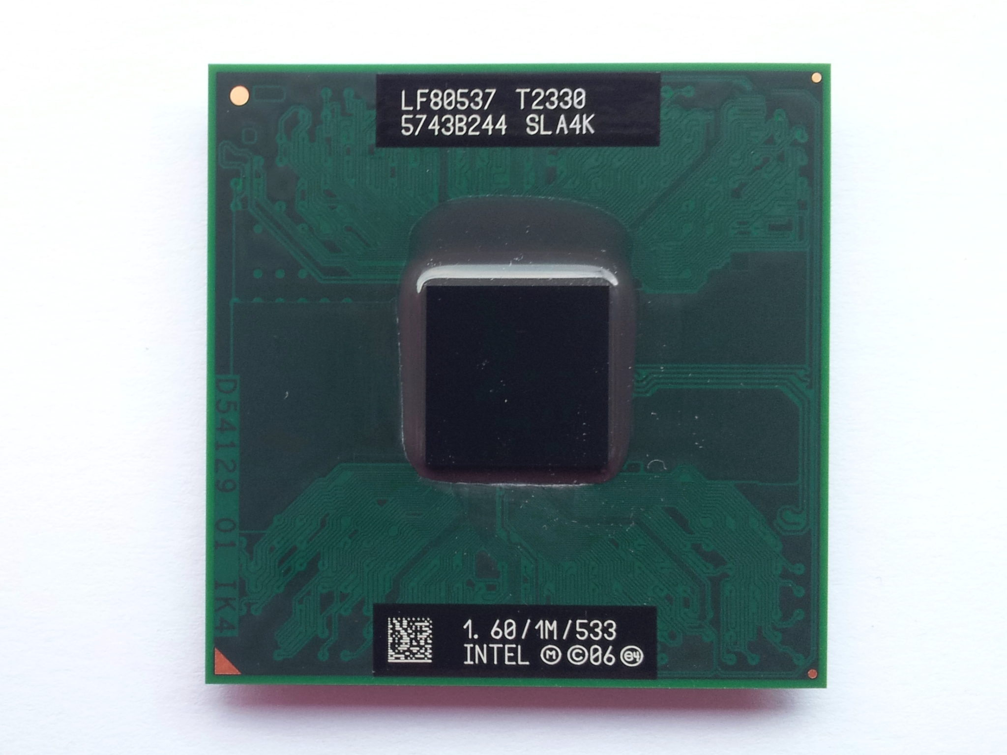 Intel Pentium Dualcore T2330 with 1600 MHz and 1MB Cache (SLA4K)